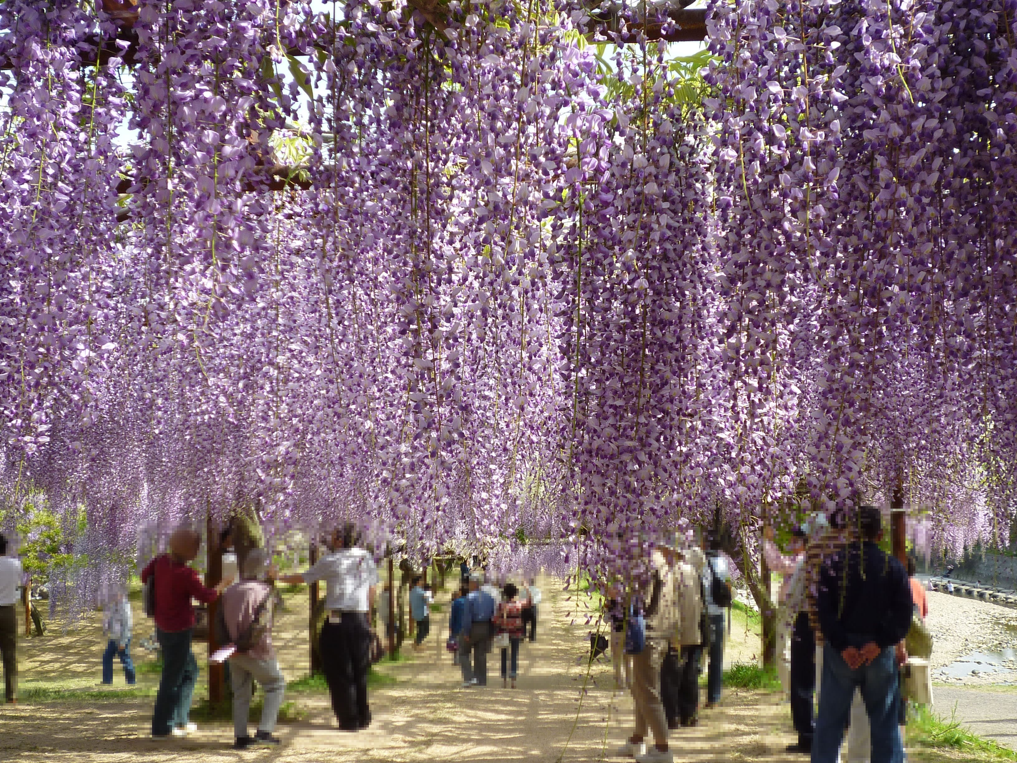 Fuji Park (Wake Town, Okayama Pref, JPN)"Fuji" means wisteria in Japanese.